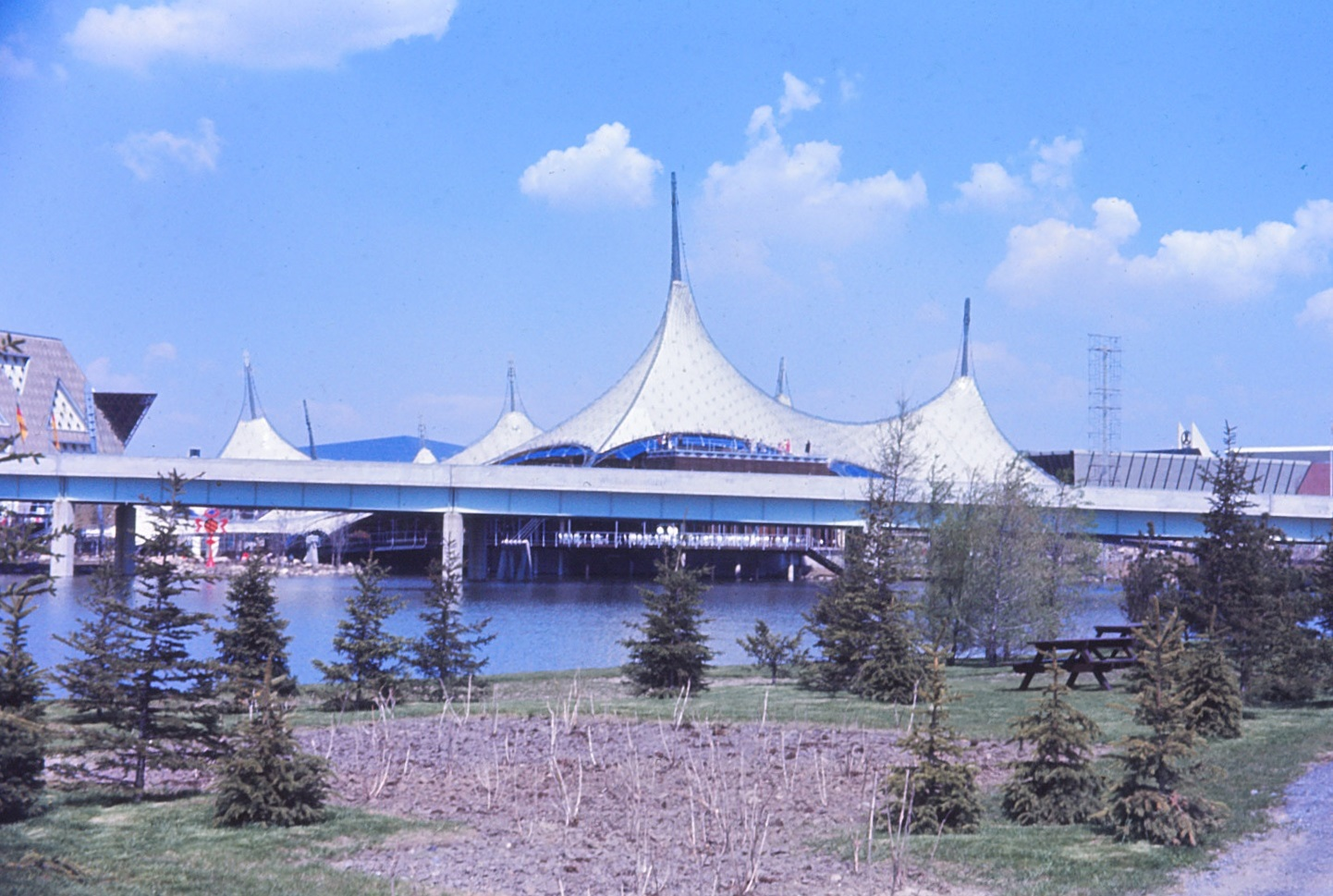 Pavilion of German Federal Republic, on Notre-Dame Island. Montréal, Québec, Canada.